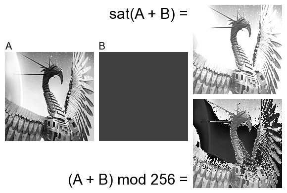 Comparision of saturated adding (sat) and wraparound adding